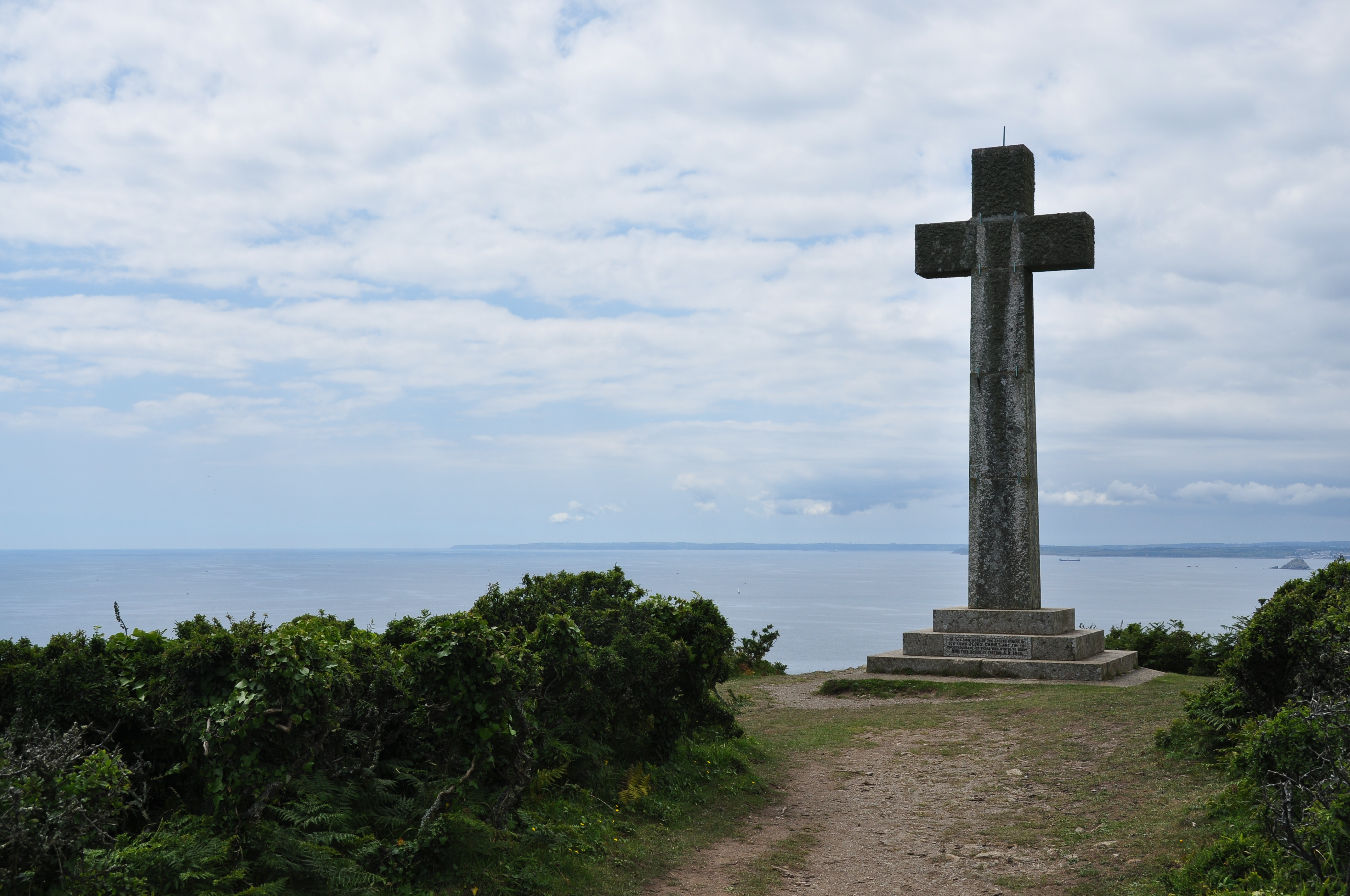 Cross on Dodman Point